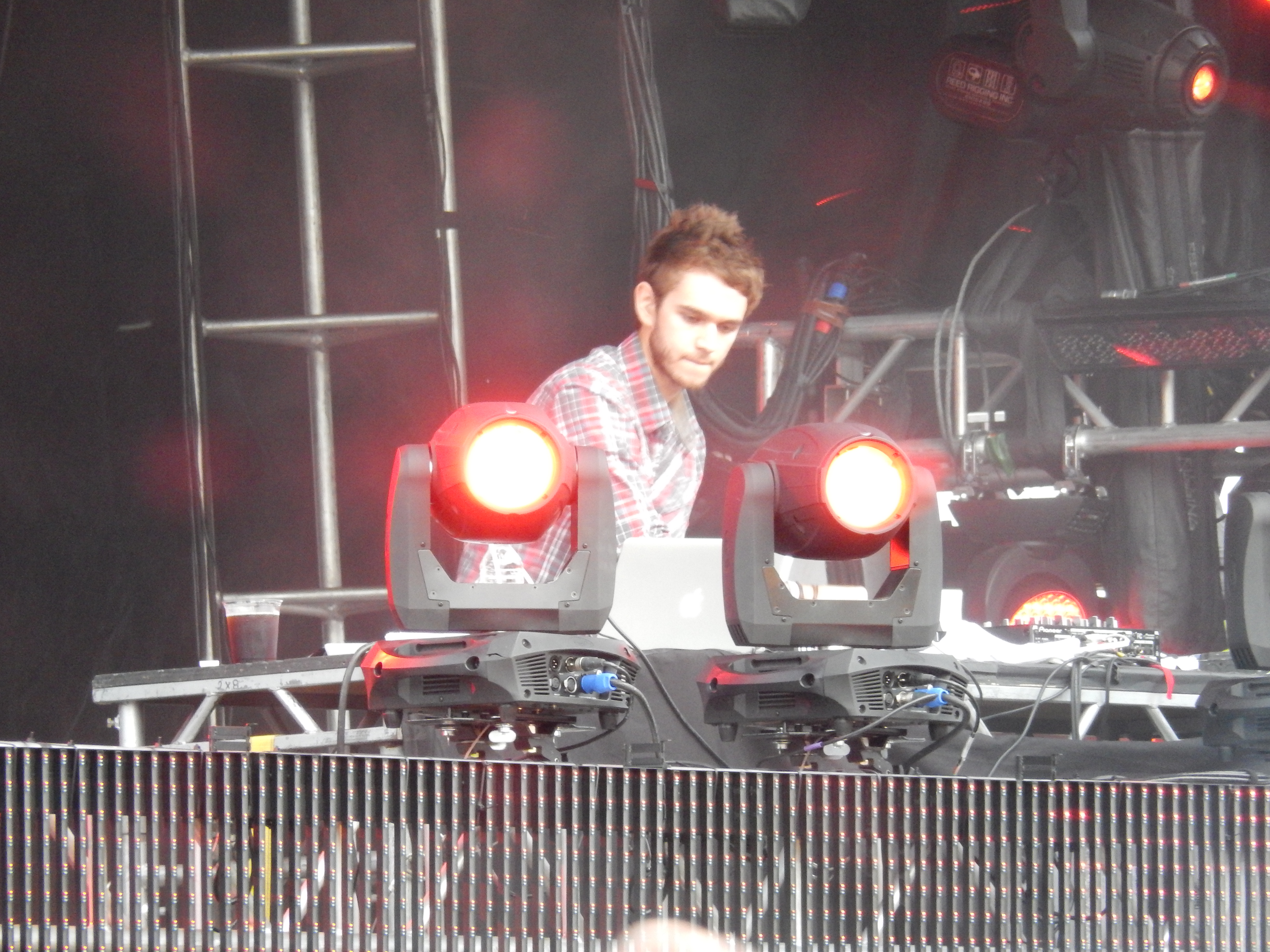 Zedd at the 2013 Spring Awakening Music Festival